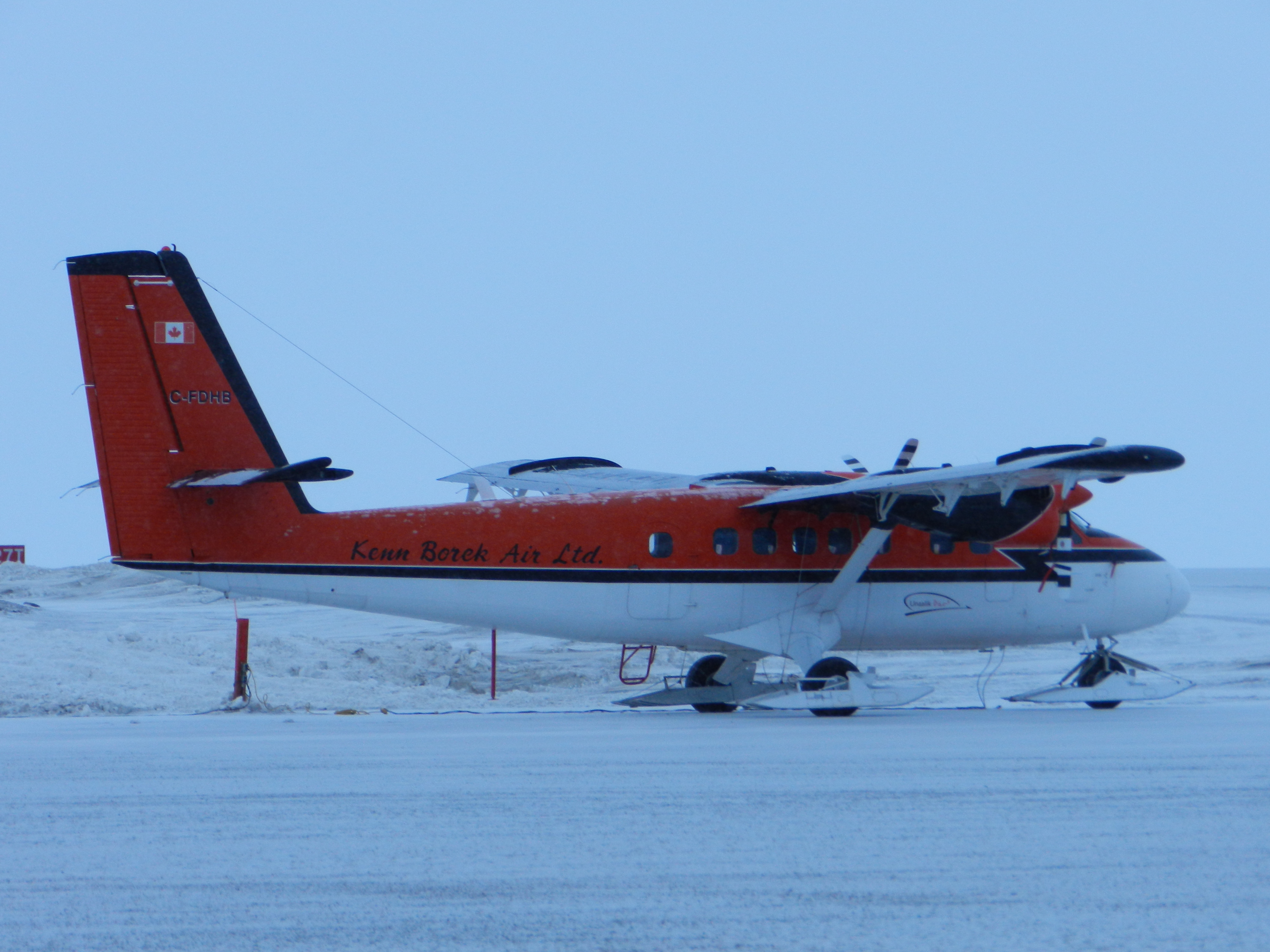 C-FDHB DHC6-300 Kenn Borek